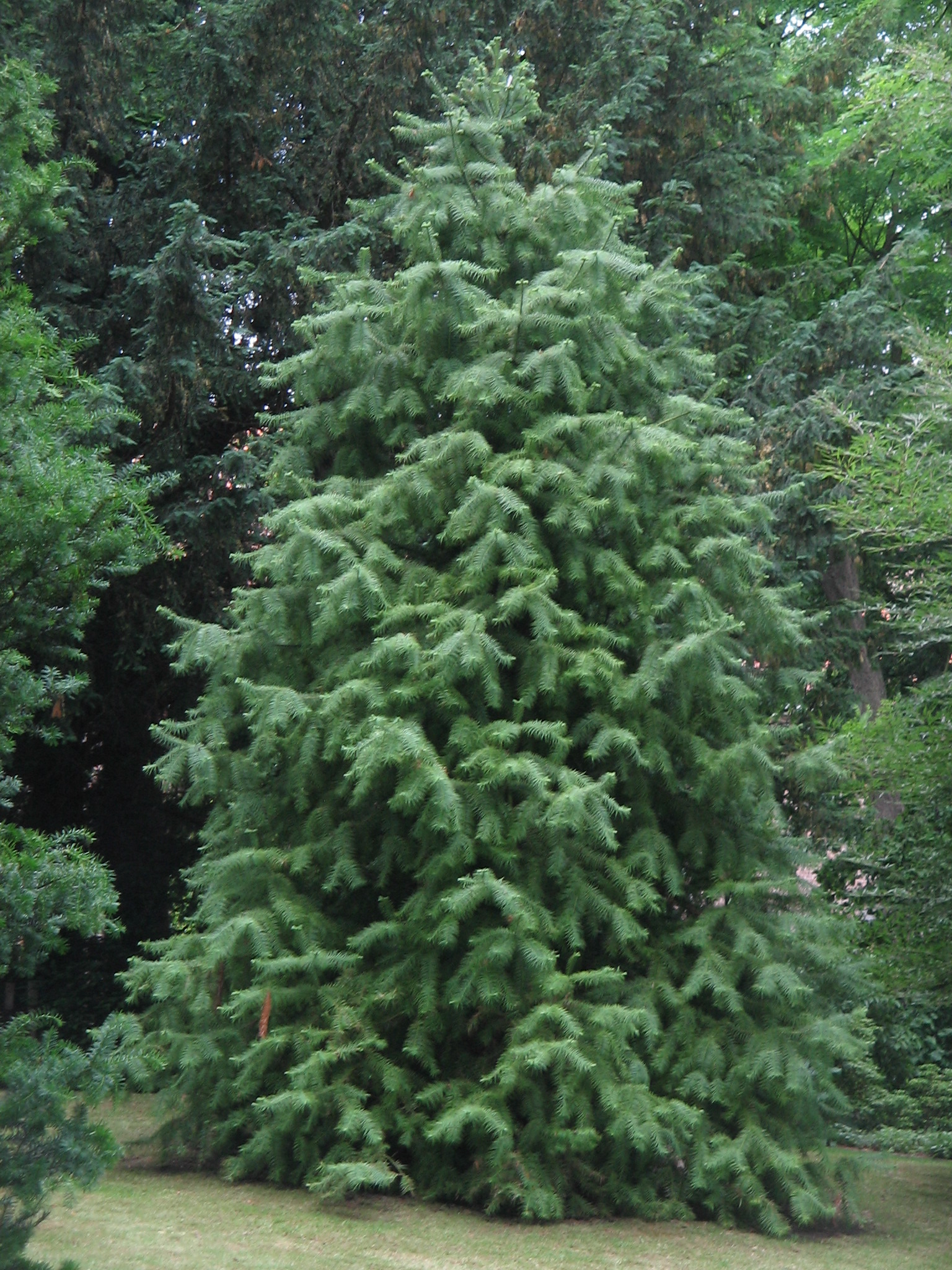 Cunninghamia lanceolata 'Glauca'